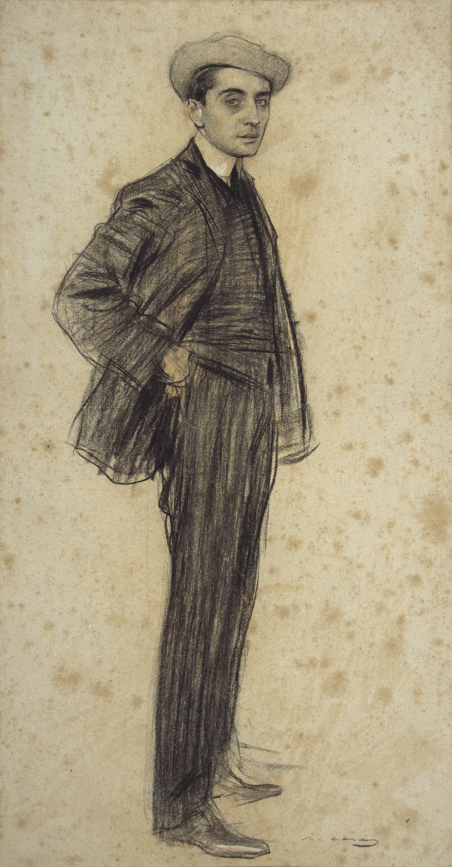 Portrait by Ramon Casas conserved at MNAC in Barcelona. Imagen 012